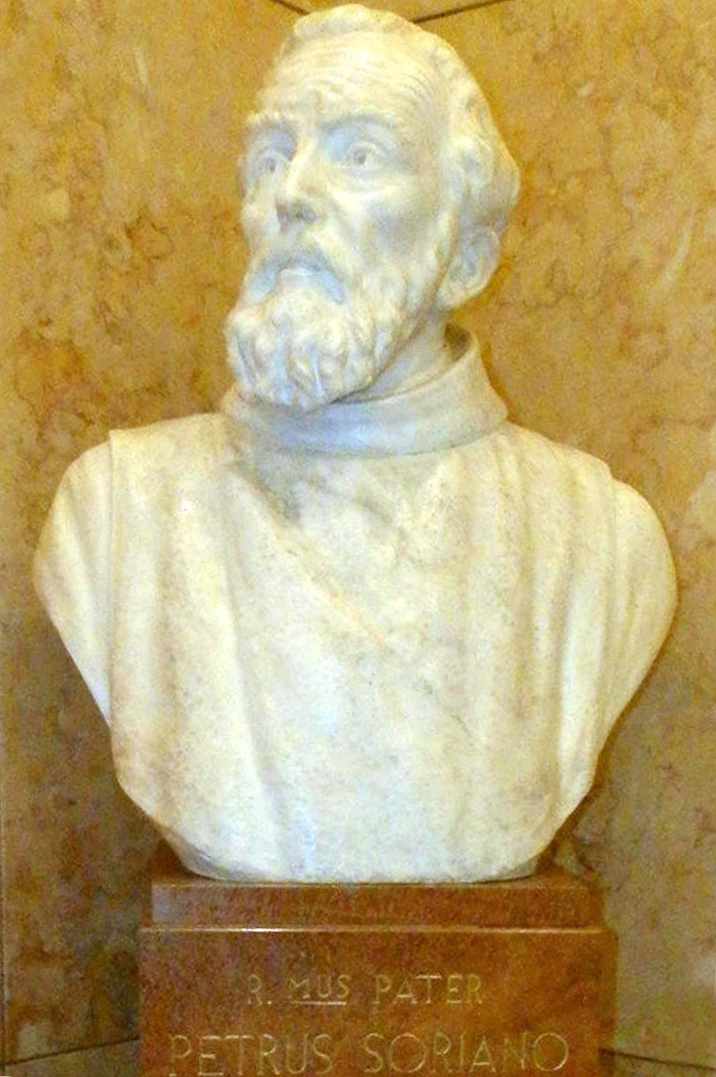 Pedro Soriano's bust, located in the hall of Ospedale San Giovanni Calibita - Fatebenefratelli, in Rome. It remembers the figure of the fist General of Brothers Hospitallers of St. John of God.